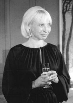 Vera Franziska Oelschlegel (18 May 1980)